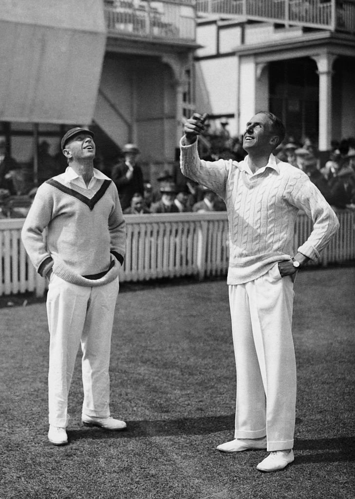 Making his debut as the England captain Arthur Gilligan (right) tosses the coin, watched by the captain of South Africa Herbie Taylor, prior to the start of the 1st Test match at Edgbaston in Birmingham, 14th June 1924.